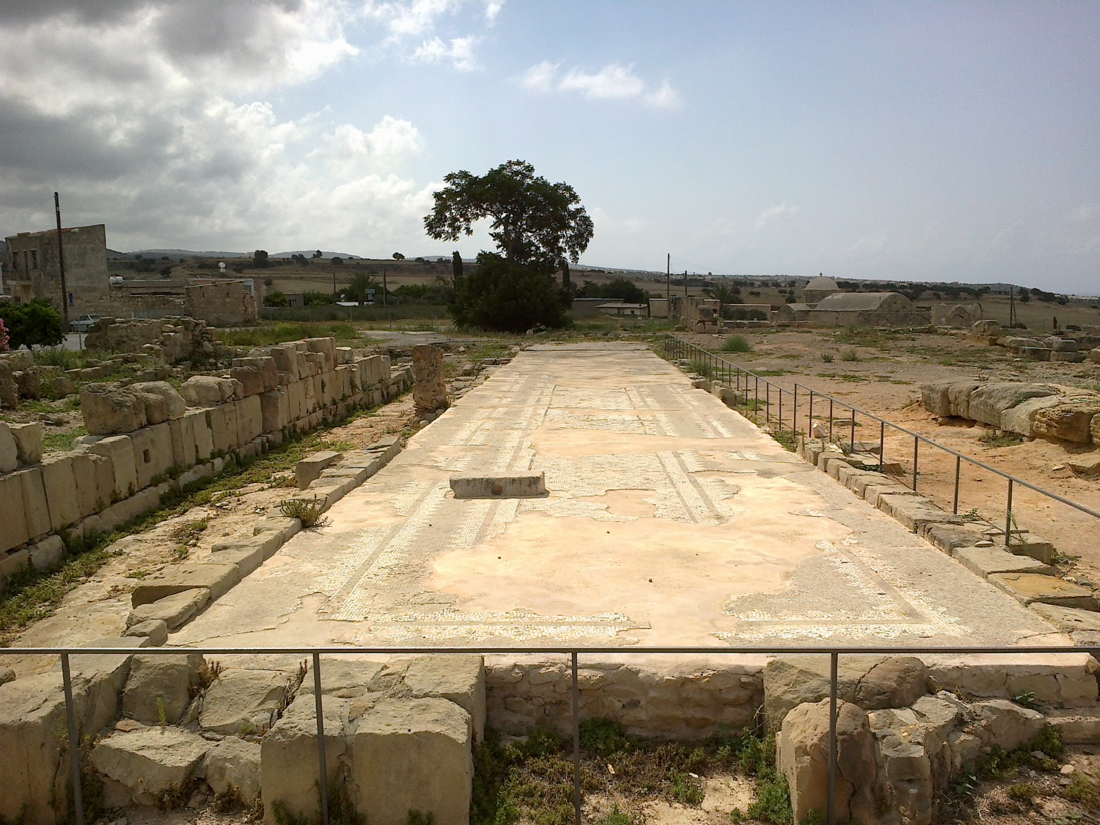 Chypre Kouklia Sanctuaire Aphrodite 21062014